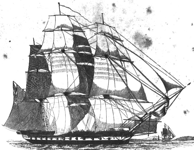 Engraving of the ship under full sail, after a drawing by Master William Brady, USN. Copied from the Kedge Anchor (1852). U.S. Naval History and Heritage Command Photograph.